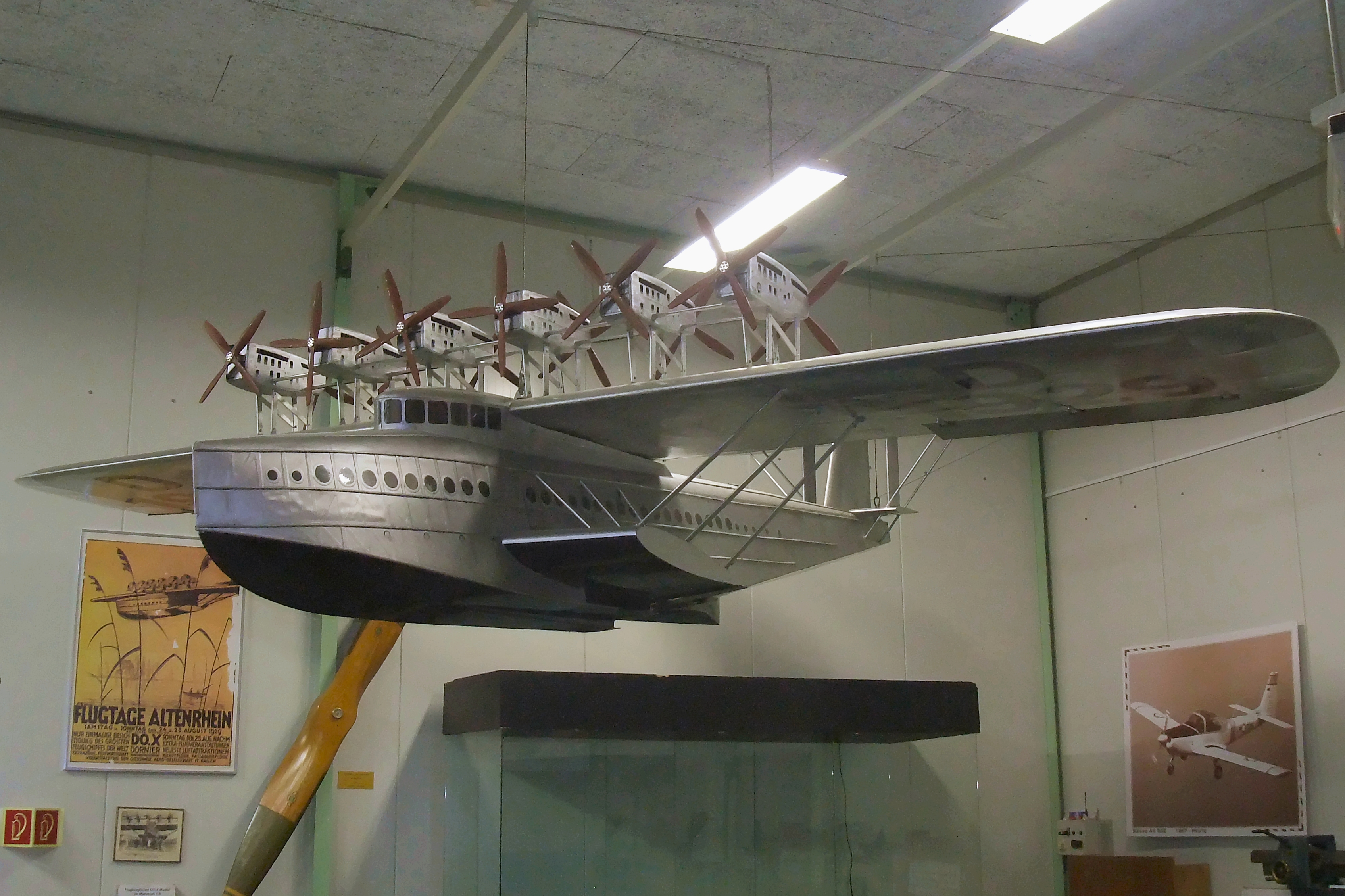 Exactly 80 years ago the largest Seaplane in the world could be visited in Altenrhein during an airshow 1929. This is a model of the DO.X in the aviation museum at the airport St.Gallen-Altenrhein, Switzerland. Aug 23, 2009. See where this picture was taken. [?]